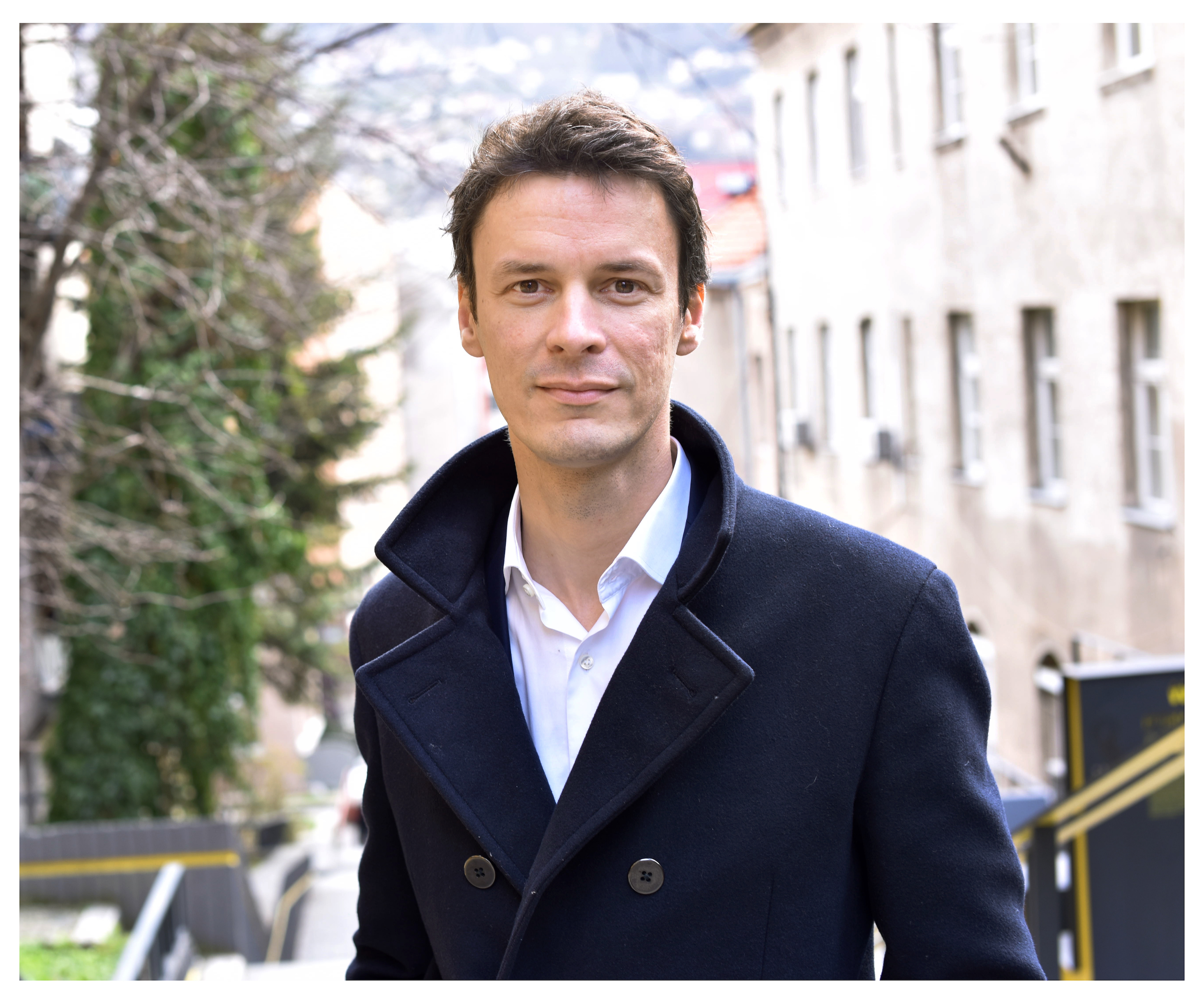 Boriša Falatar